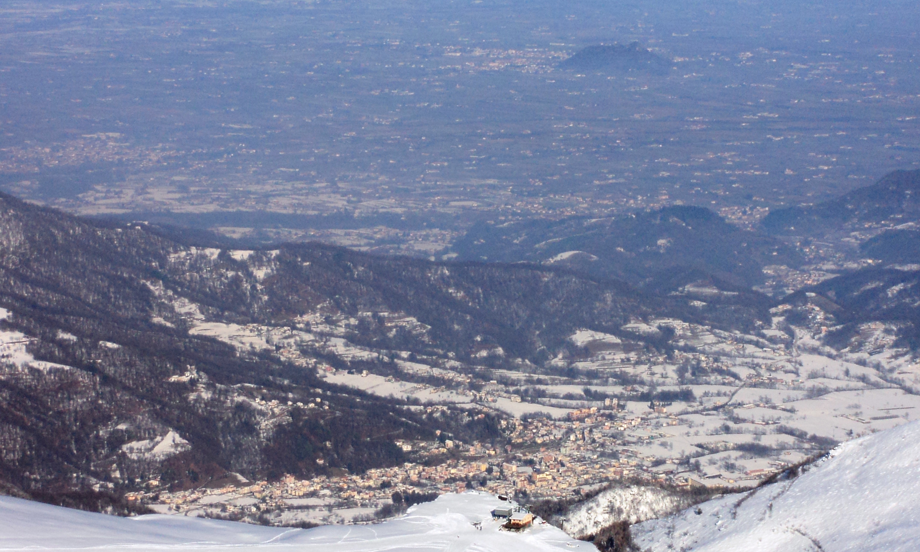 Paesana - Province of Cuneo - Piedmont